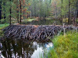 Beaver dam on Gurnsey Creek, just below Childs Meadows, Tehama County, Caifornia